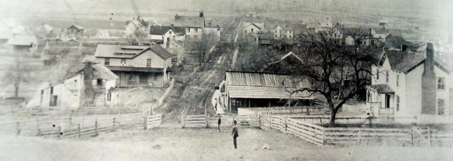 View of Hillsboro, taken from Denmar Road